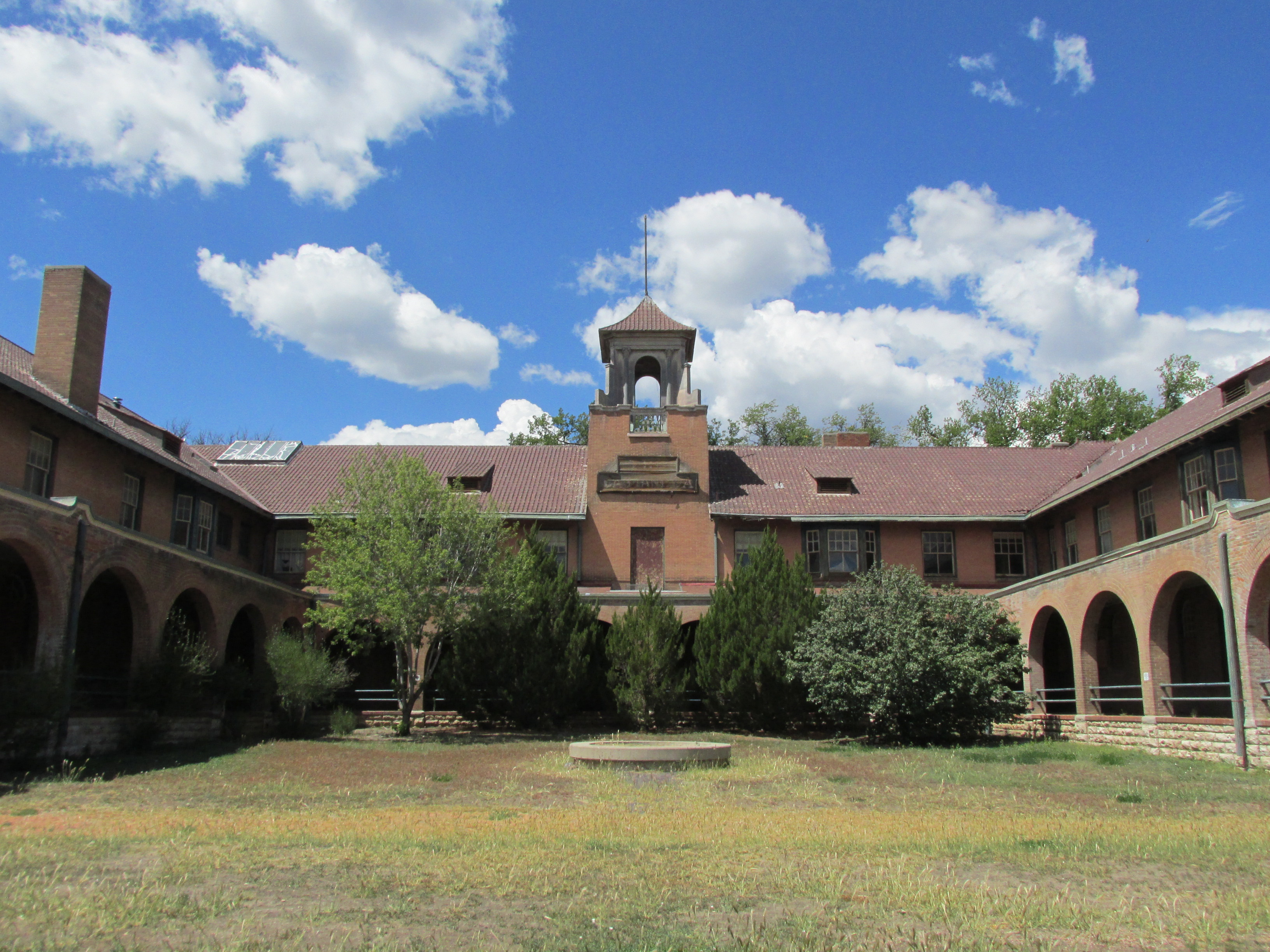 Castaneda Hotel in the Railroad Avenue Historic District, Las Vegas New Mexico